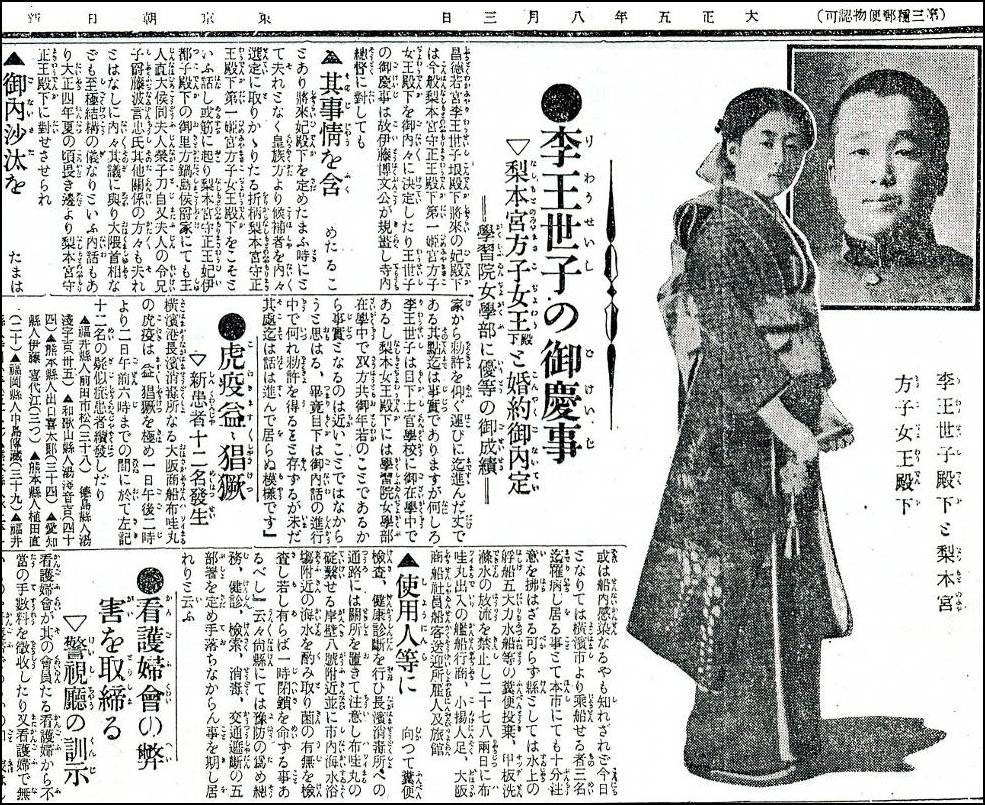 The engagement of Yi Un & Nashimotonomiya Masako (Bangja), Tokyo Asahi Shimbun, August 3, 1916